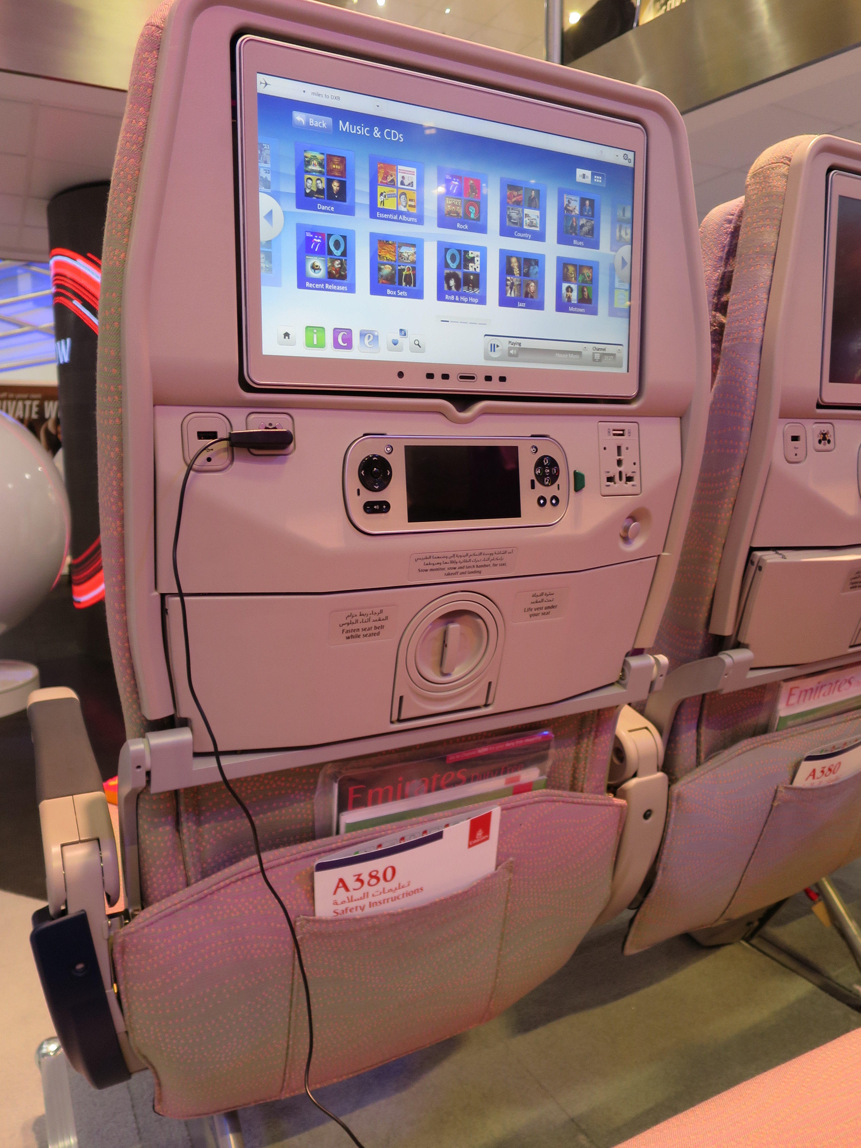 Emirates A380 economy ITB 2017.